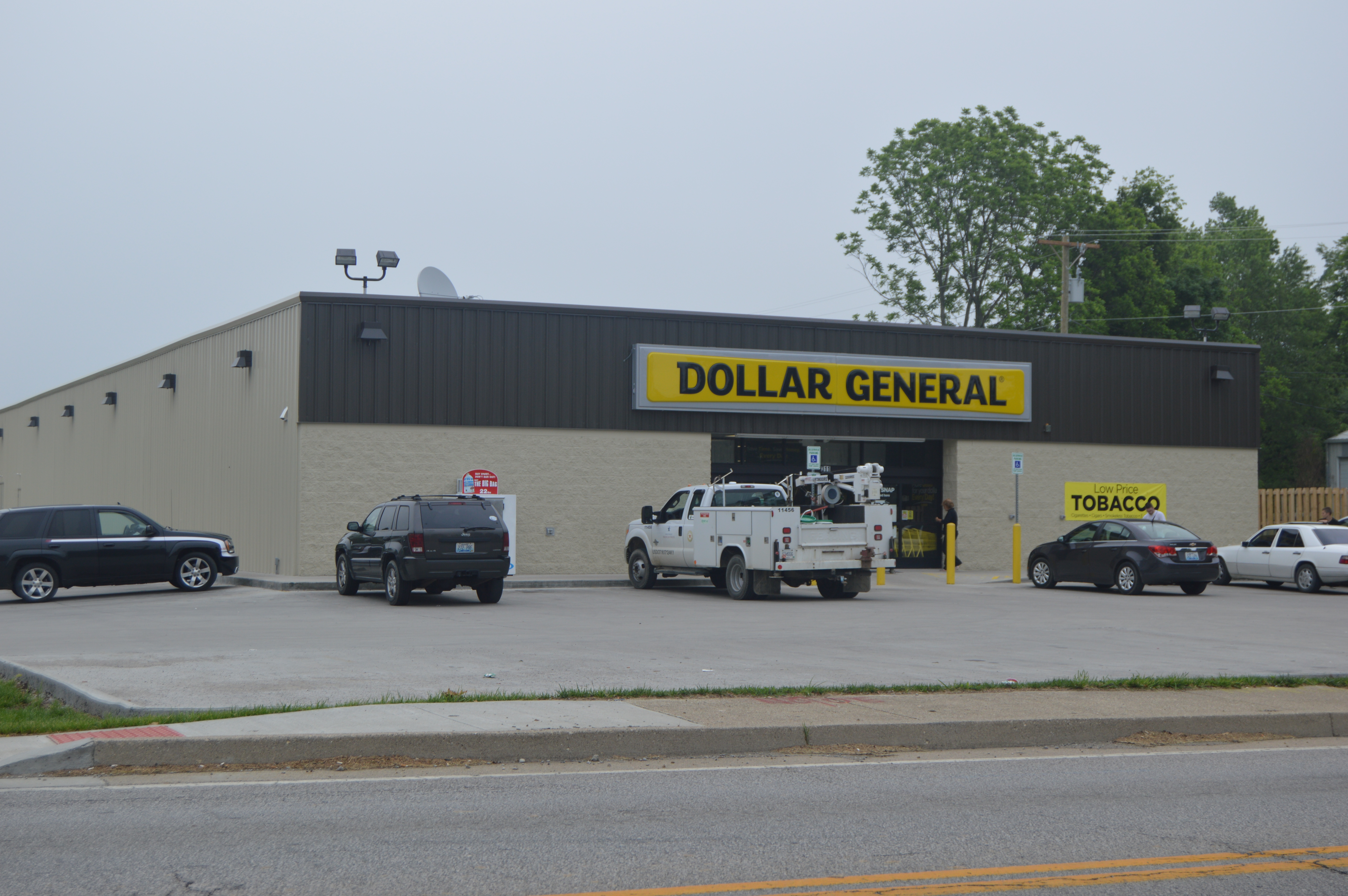 Front of a Dollar General store located at 311 S. Main Street (U.S. Route 127/Kentucky Route 22/Kentucky Route 227) in Owenton, Kentucky, United States. This was formerly the site of the Ford House, which was listed on the National Register of Historic Places in 1984; although it has been destroyed, it has not yet been removed from the Register.